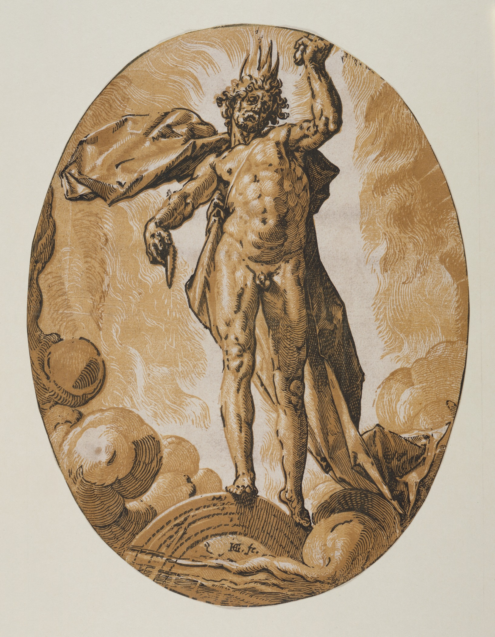 Holland, circa 1588-1589 Prints; woodcuts Chiaroscuro woodcut printed in black, ochre and brown Mary Stansbury Ruiz Bequest (M.88.91.106) Prints and Drawings